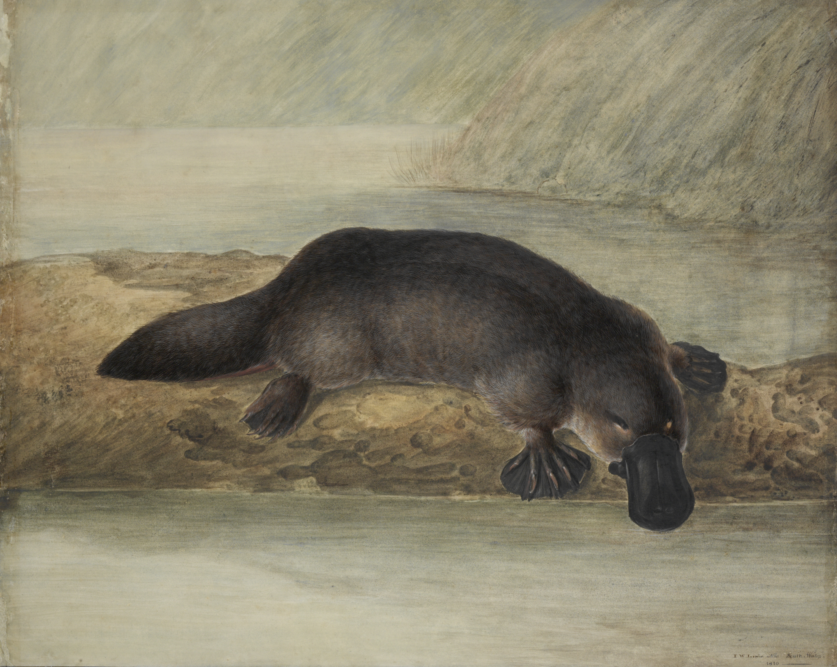 This image is a digital reproduction of a painting by John Lewin of a Platypus in 1808. Details at the library include those on the canvas."[Platypus], 1810 / by J.W. Lewin .(Lewin, J. W. (John William), 1770-1819). 1808. 1 watercolour & gouache drawing - 43.8 x 54.3 cm. Inscriptions : Signed & dated at lower right "I. W. Lewin New South Wales / 1810" Notes: Donor acknowledgment cited on frame. Source : Bequeathed by Miss Helen Banning. Notes : Reproduced, by the Library, as a large colour print (Ref. U 46, copy filed at PXD 141), and postcard (Ref. PC 32, copy filed at PXB 188).